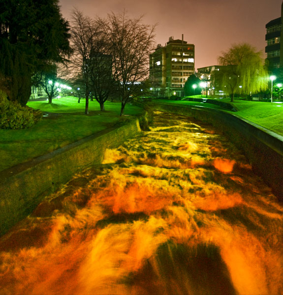 Water of Leith, Dunedin, New Zealand, by the University of Otago after 90mm of rain had fallen in a 24 hour period. My father took this photo himself, and gave permission for its use.